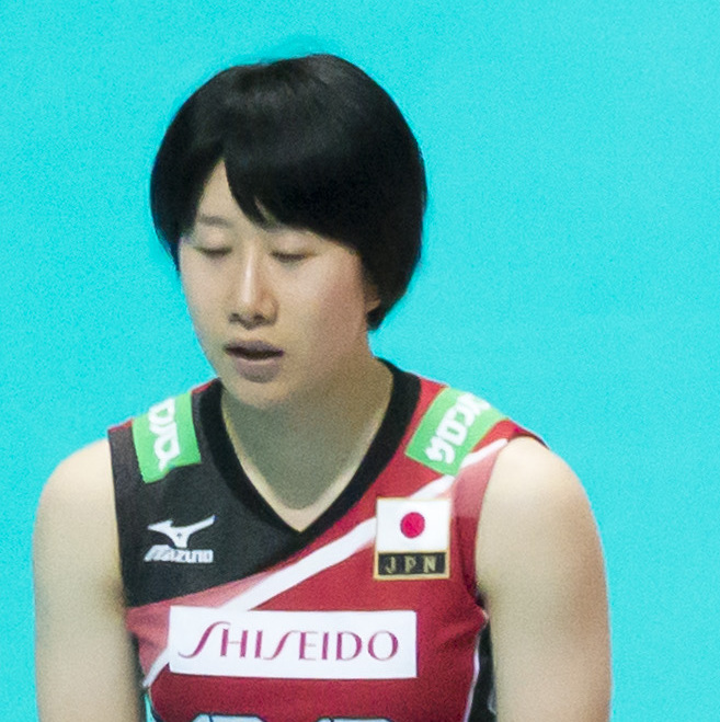 JAPAN TEAM 2. SARINA KOGA 3. NANA IWASAKA 4. RISA SHINNABE 9. HARUYO SHIMAMURA 10. KOYOMI TOMINAGA 11. YURIE NABEYA 12. MIYA SATO 13. MAI OKUMURA 14. AYAKA MATSUMOTO 16. RISA ISHII 18. MAMI UCHISETO 20. MAKO KOBATA 21. KOTOE INOUE 23. RIKA NOMOTO 24. MIZUKI TANAKA